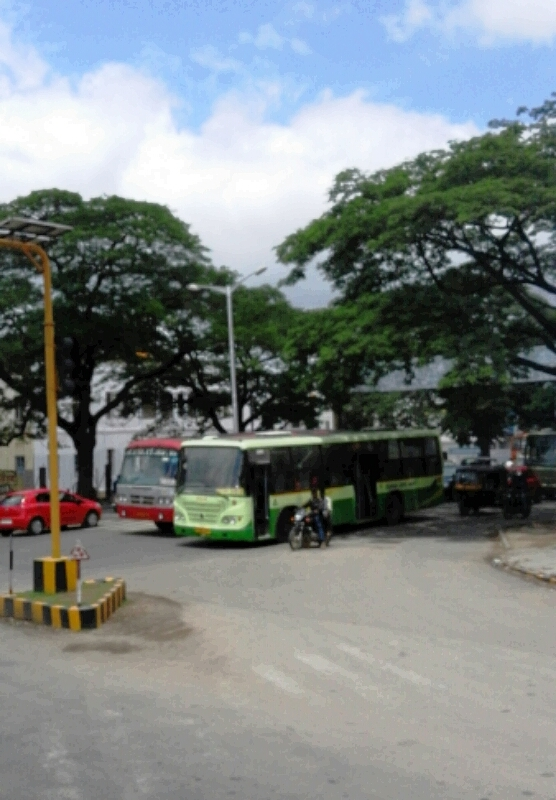 Mysore city, Mysore district, Karnataka province, India.